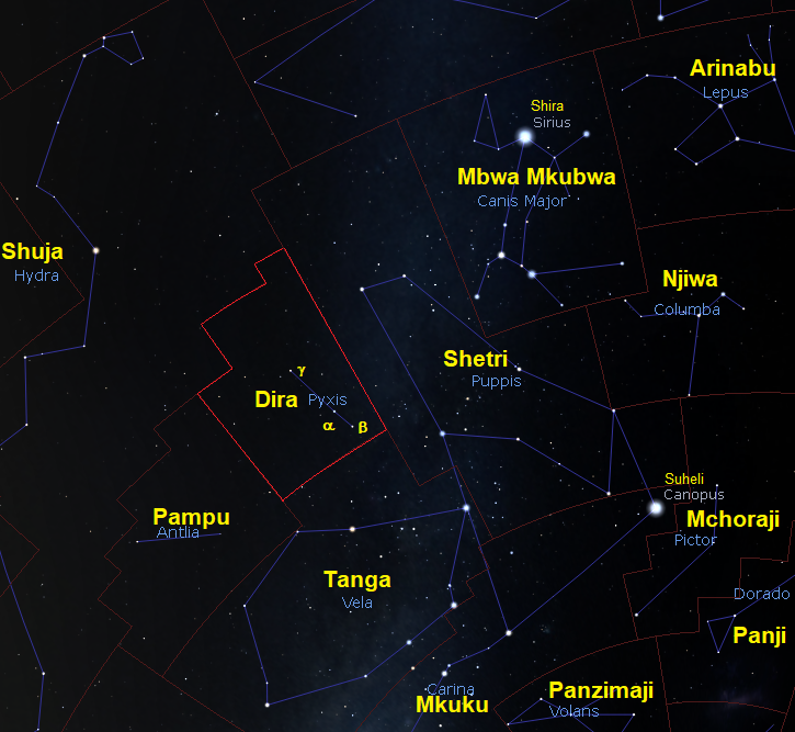 Constellation Pyxis as seen from Tanzania, Swahili labelled Kiswahili: Kundinyota Dira (Pyxis) jinsi inavyoonekana kutoka Tanzania, majina kwa Kiswahili